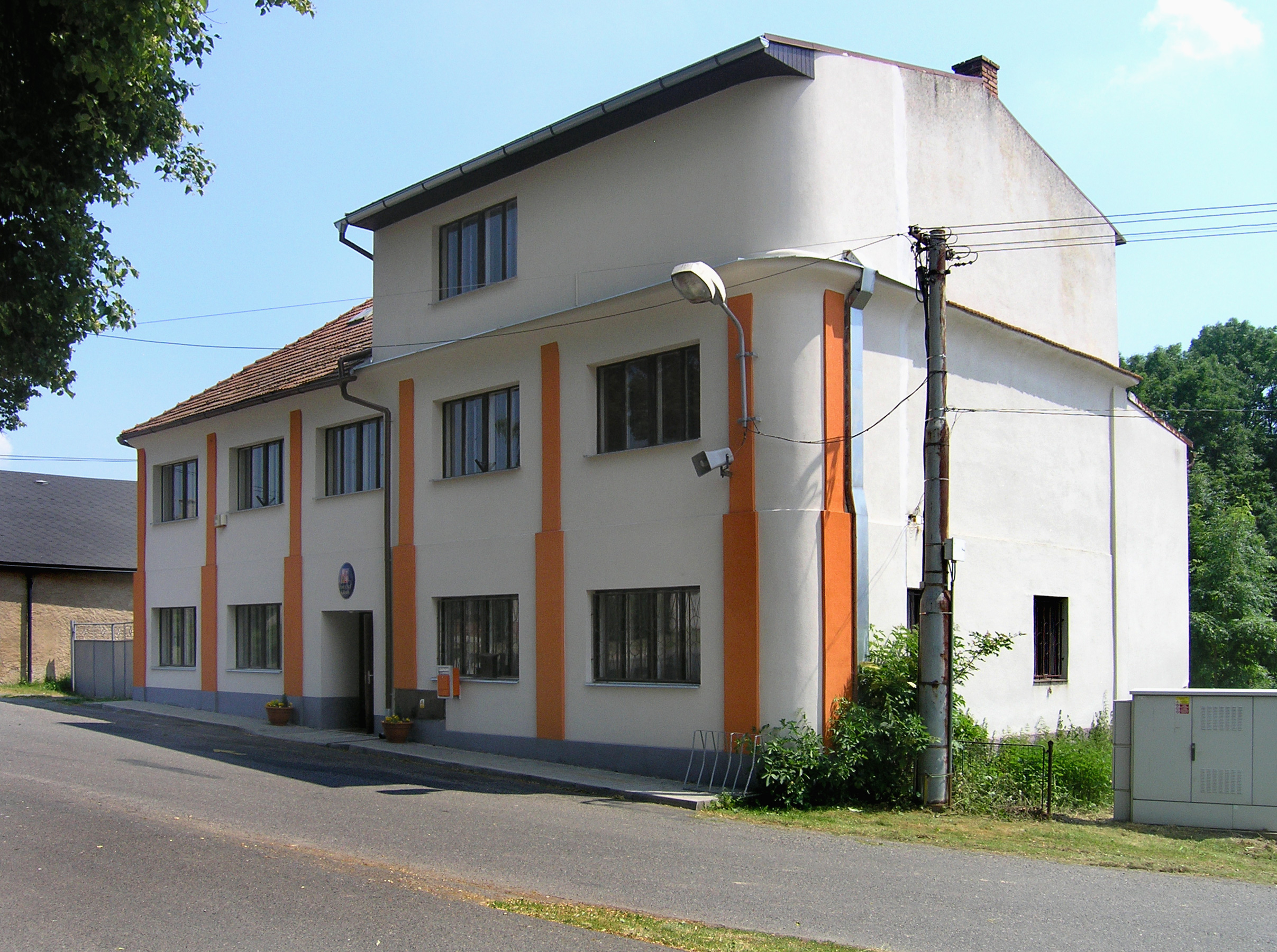 Municipal office in Malotice, Czech Republic